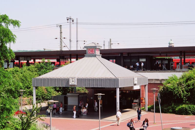 Western Entrance of Goettingen railway station, Lower Saxony, Germany. Background: St. Jacob's church's tower.